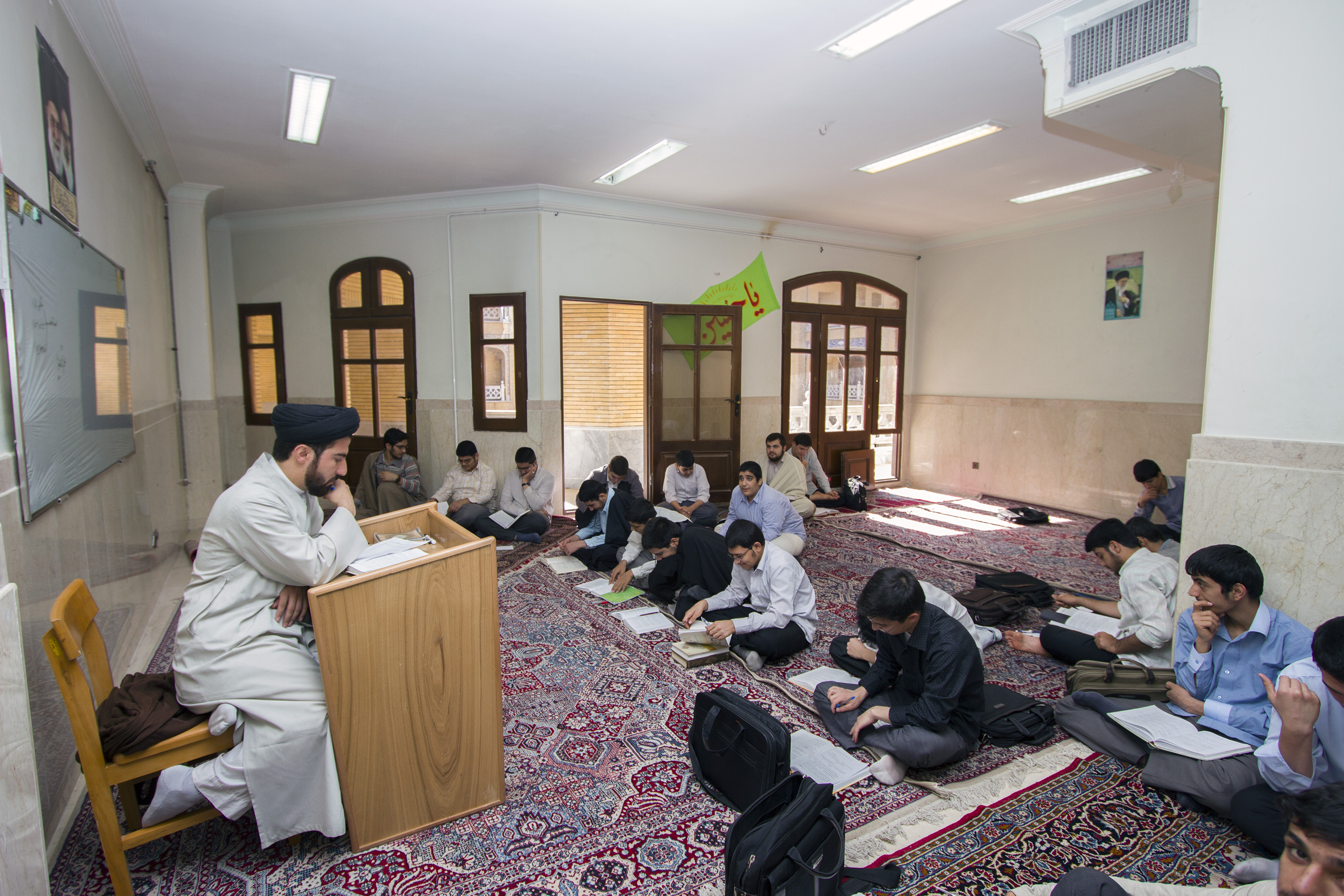 Clergy are some of the main and important formal leaders within certain religions.